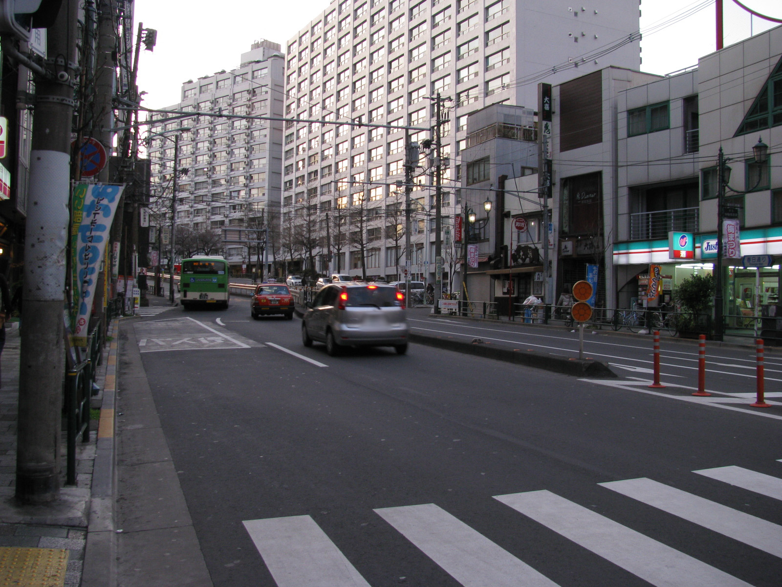 Yushima station